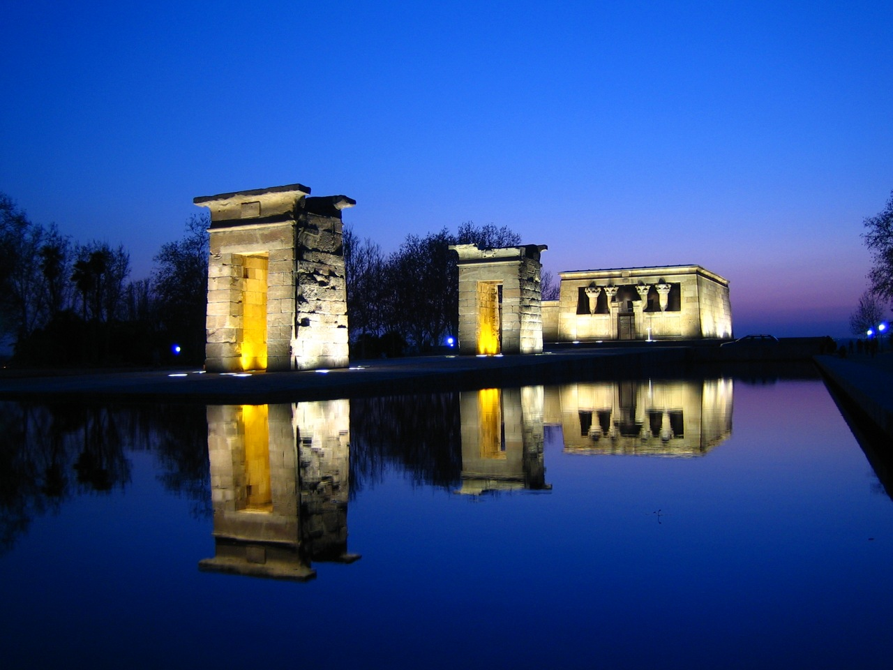 Night view of the Temple of Debod in Madrid (Spain).